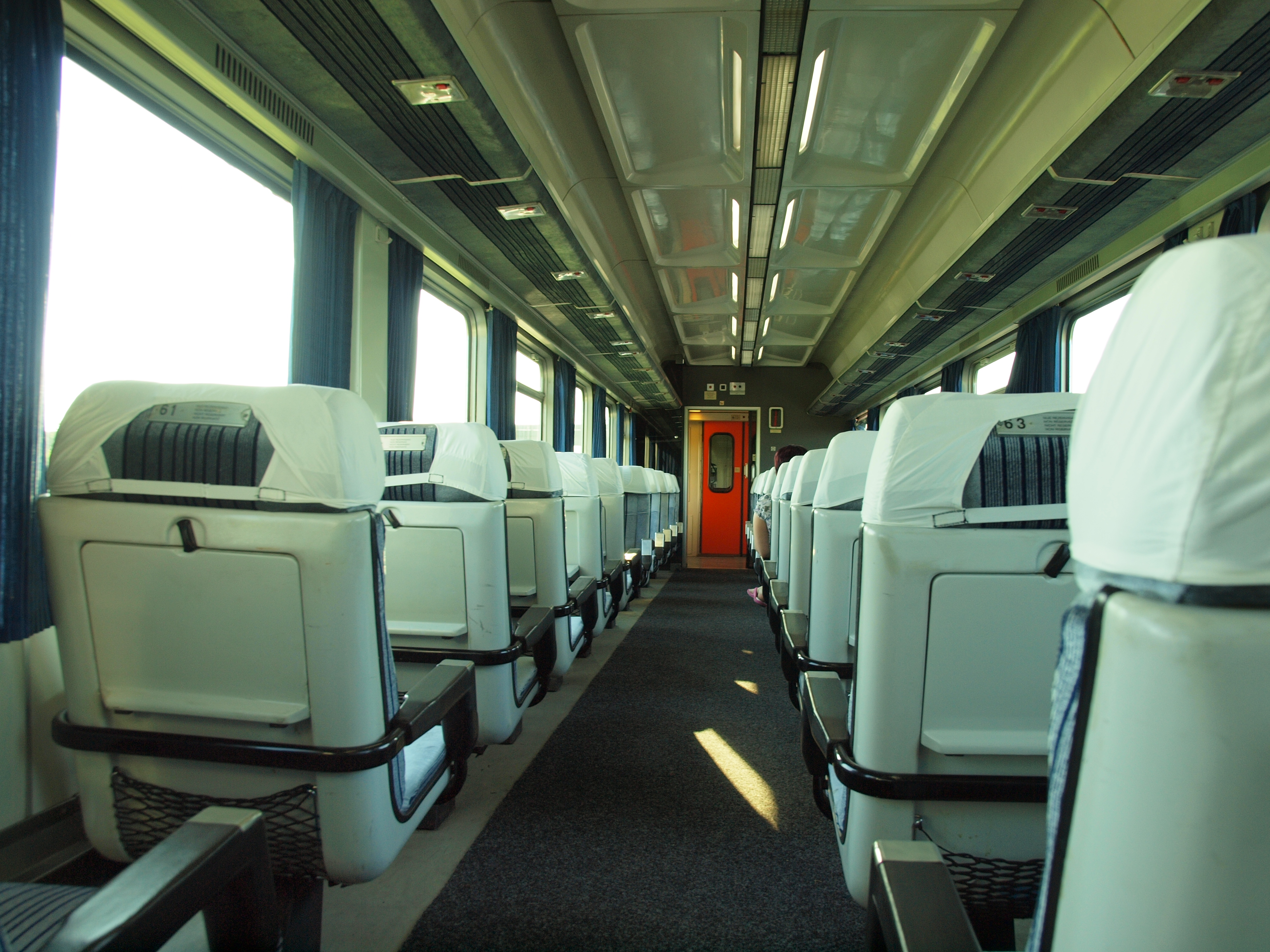 Gosa Z1, Serbian Railways